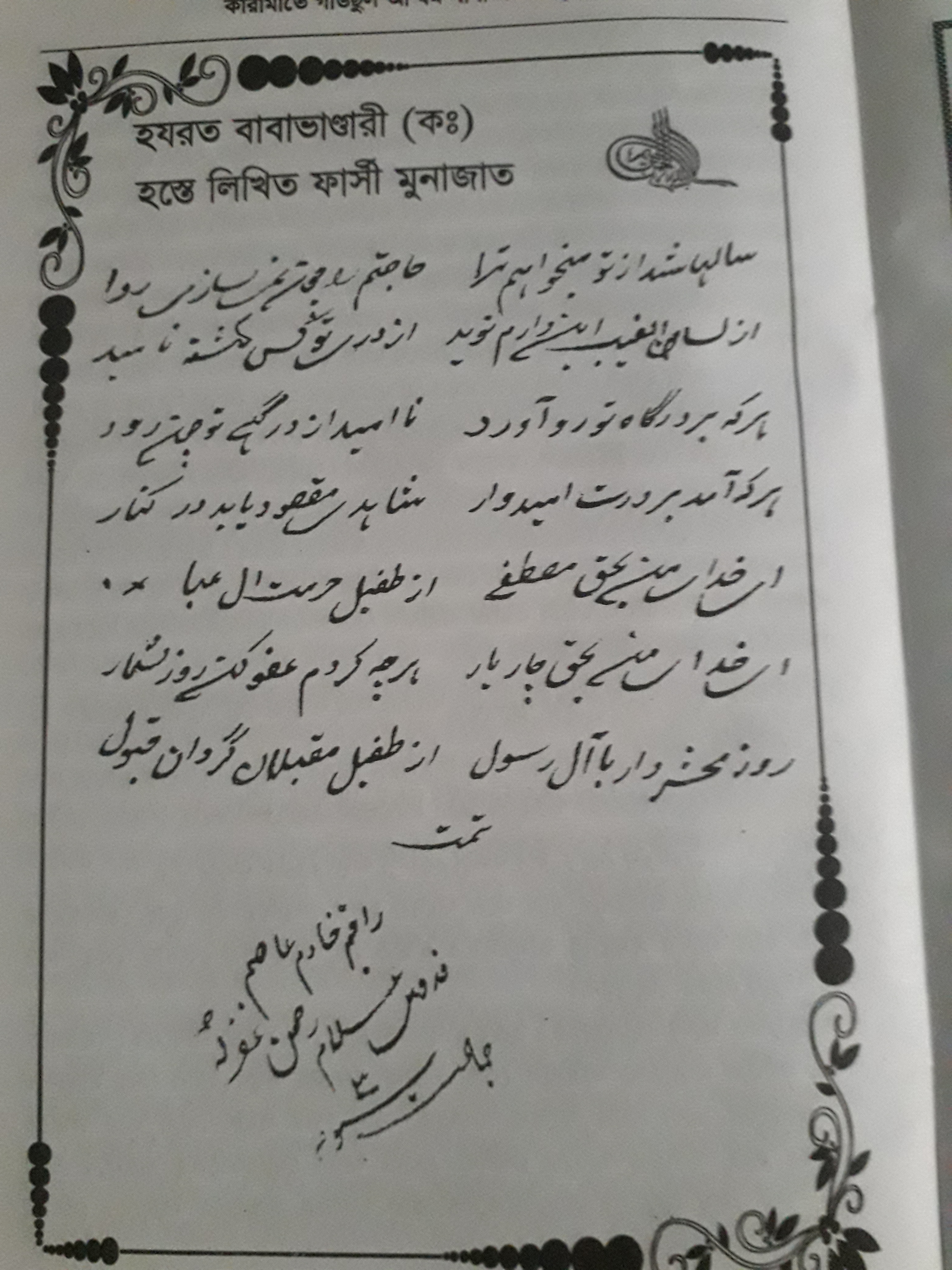 Munazat Written By Baba Bhandari's own hand in Farsi